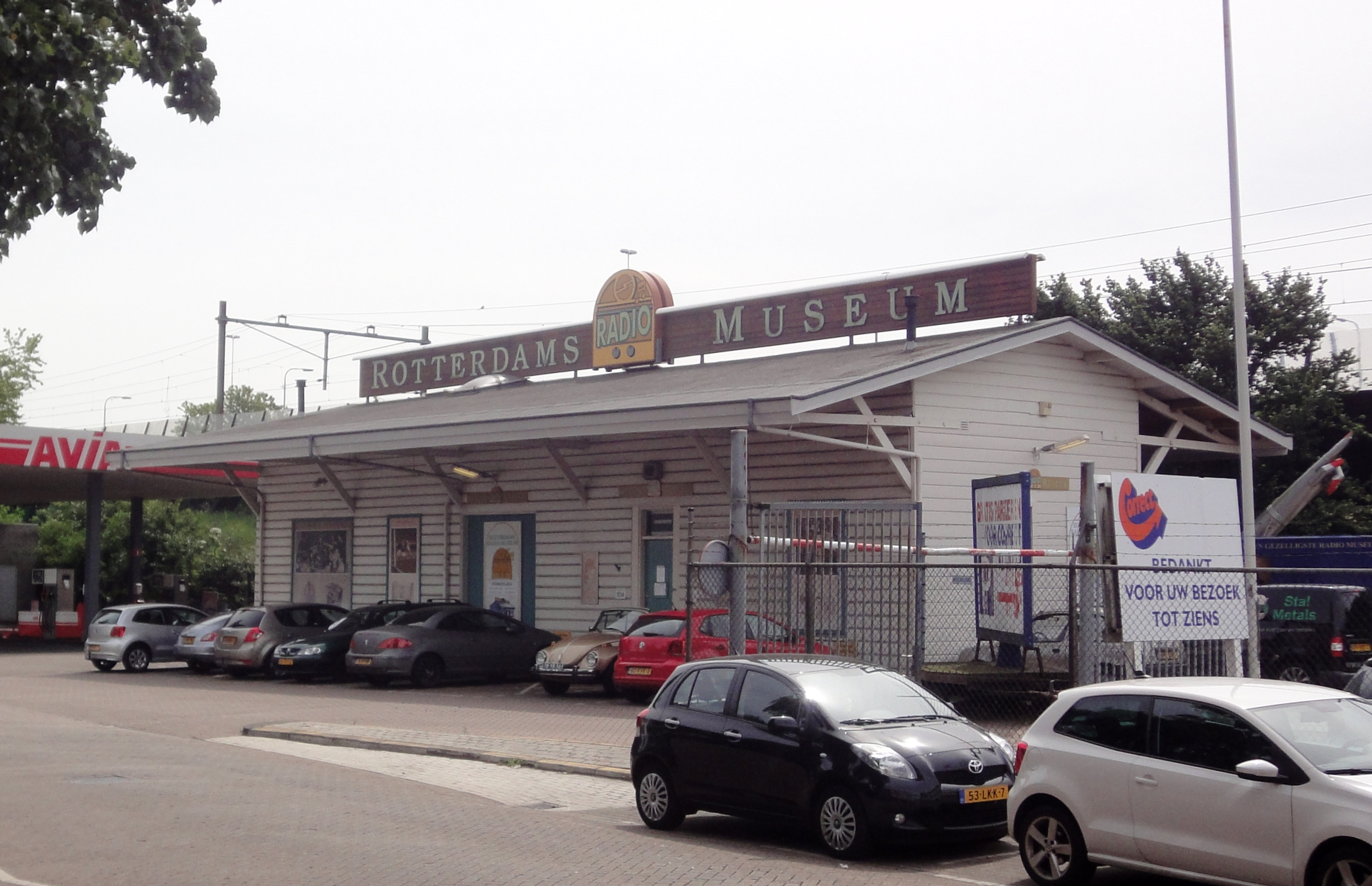 Rotterdams Radio Museum